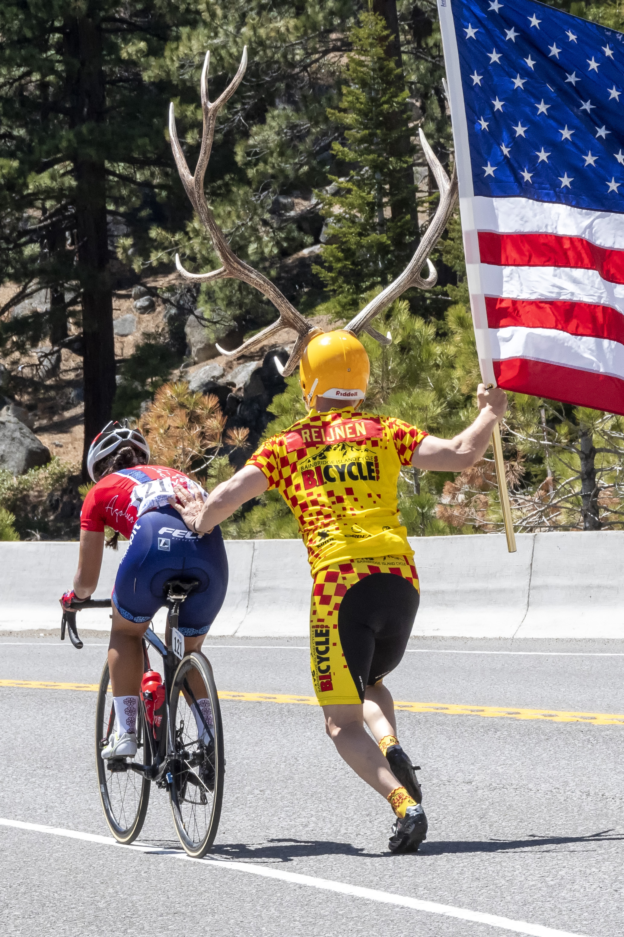 Amgen Women's Tour of California 2018